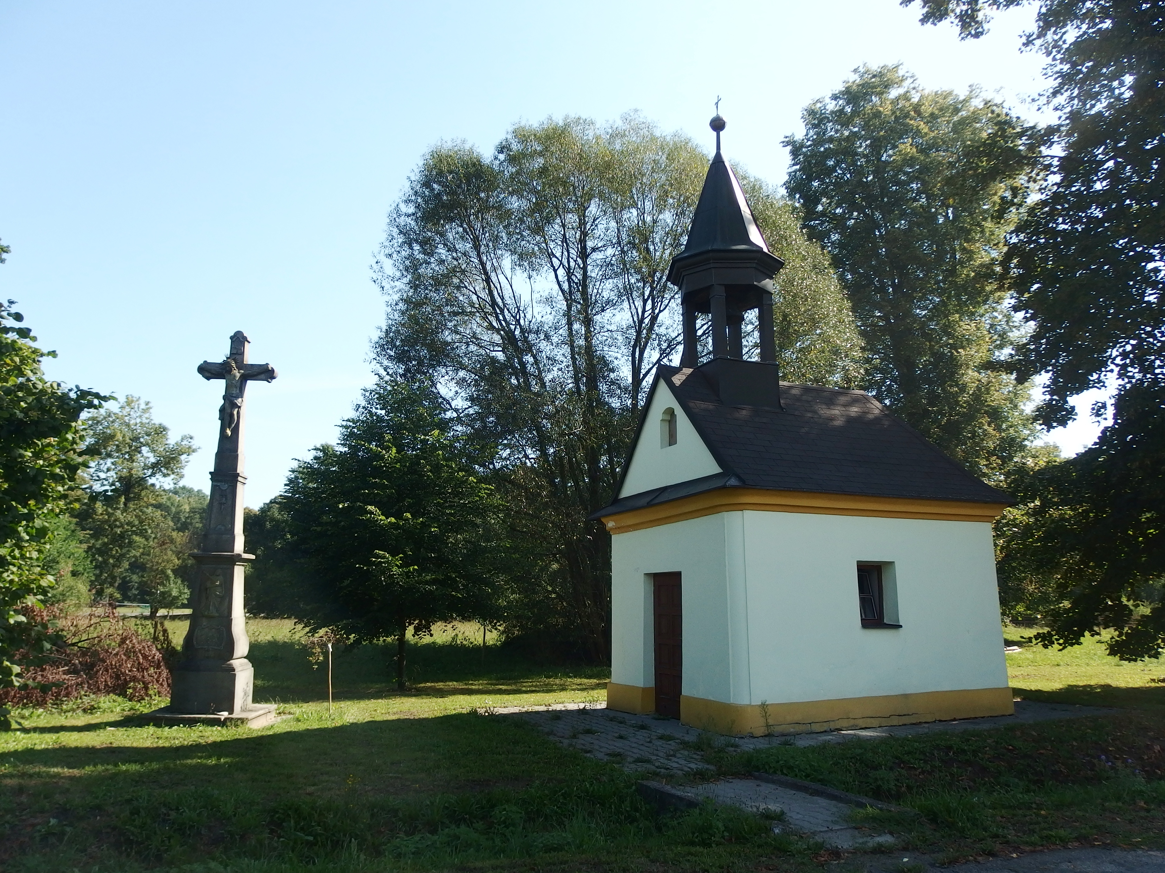 Jeseník nad Odrou, Nový Jičín District, Czech Republic, part Polouvsí.